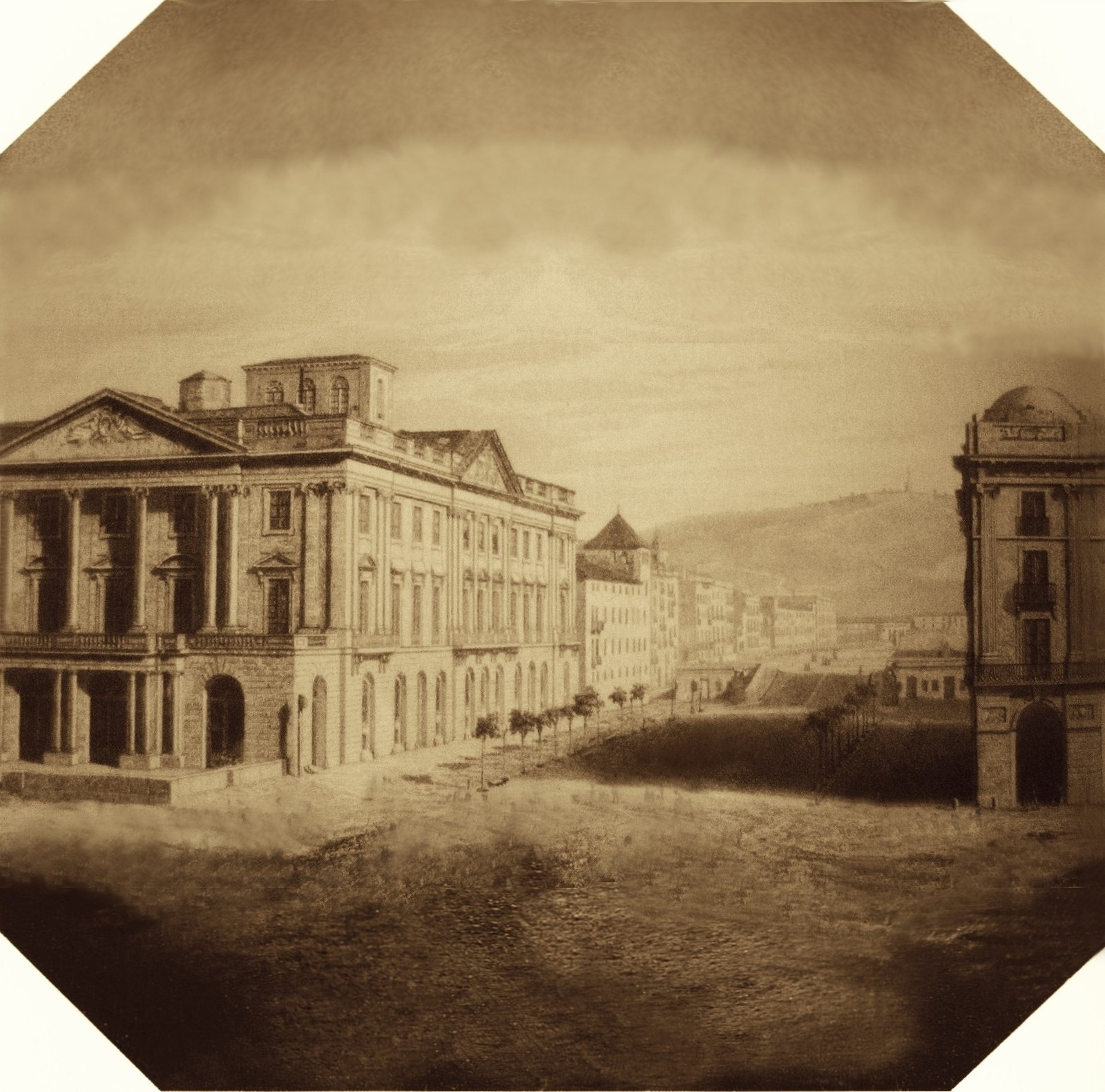 Recreation of the 1st daguerreotype taken in Spain in 1839 with a view of casa Xifré Llotja de Mar de Barcelona, the subjects and year are the same, only the angle of view may be different. The view is a specular symetry of the actual view, as it happened in the original daguerreotype.. I did the recreation from a gravure of the same date based on the description of the daguerreotype existing in the Academy of Ciències of Barcelona